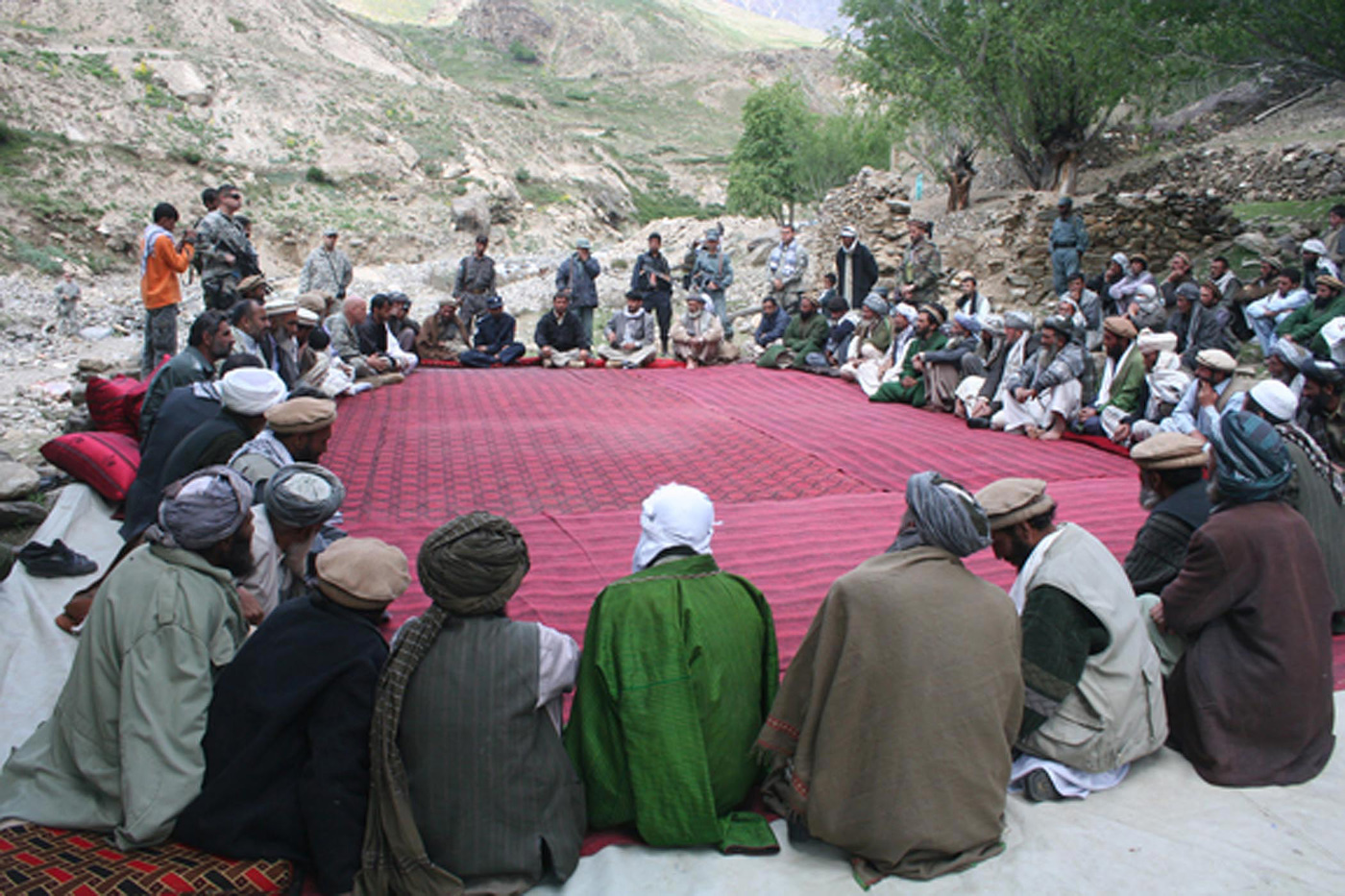 An impromptu shura, or town meeting, takes place during Panjshir province Governor Bahlol Bajig visit to the district for the groundbreaking of a new school in the Tul district of Afghanistan May 28, 2007. (U.S. Army photo by Chris Shin)